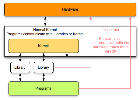 Highlights difference between a "normal" (let's say monolithic kernel) and an exokernel. Is not 100% exact, but let the text explain all the details. This image is a revision of Thorben Bochenek's exokernel_(english).png.